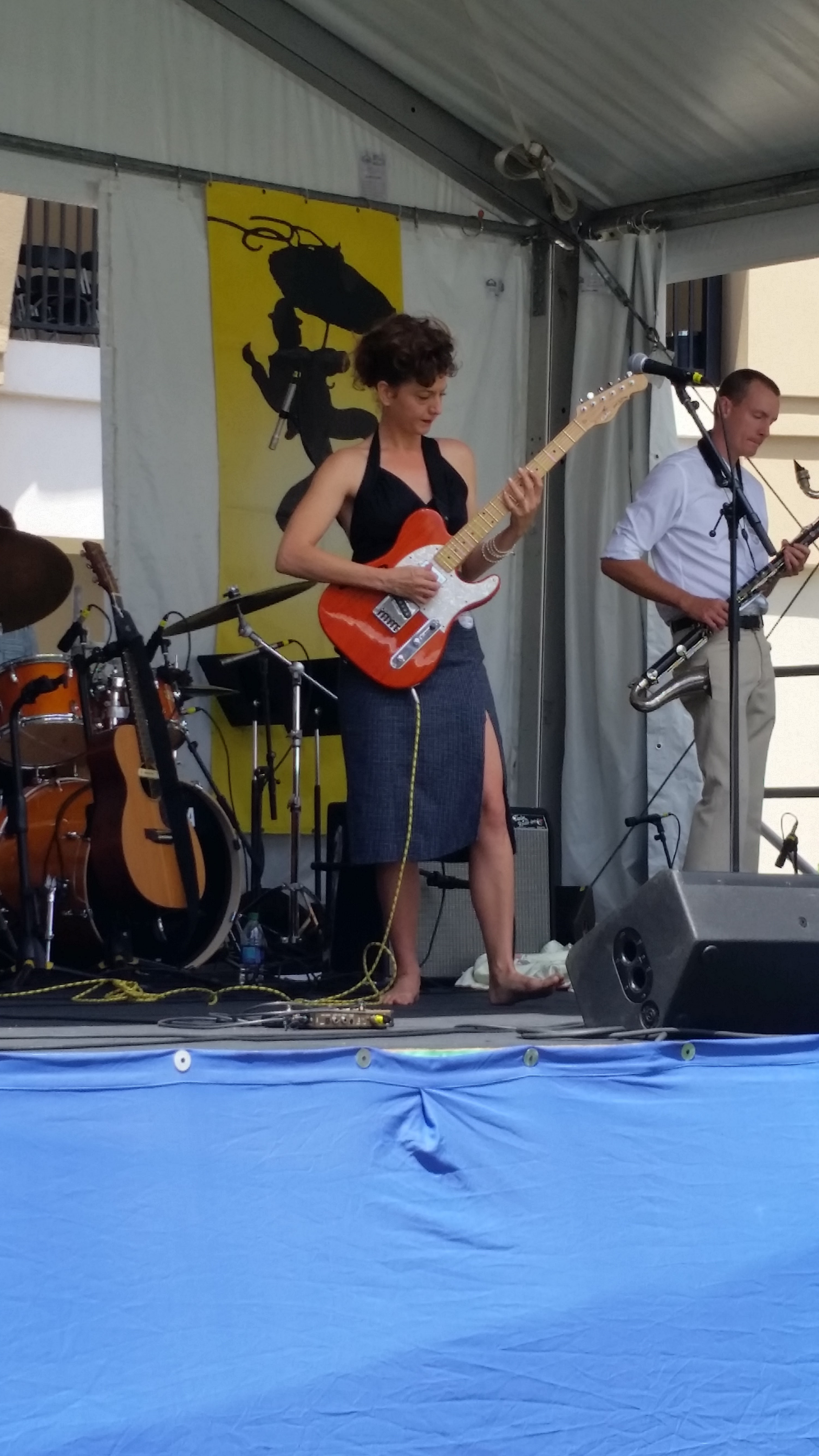 Sarah performing at Jazz Fest in 2016